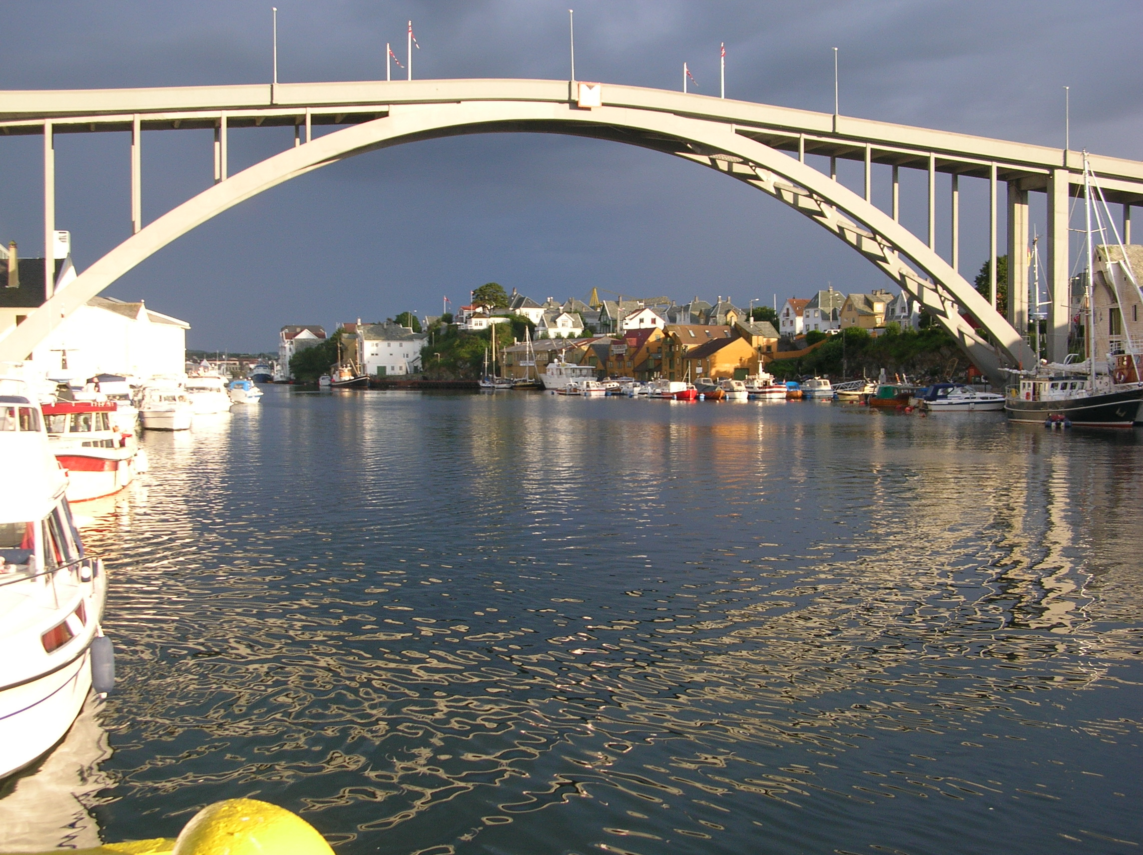 The Norwegian island of Risøy seen through the Risøybroa (Risøy bridge)